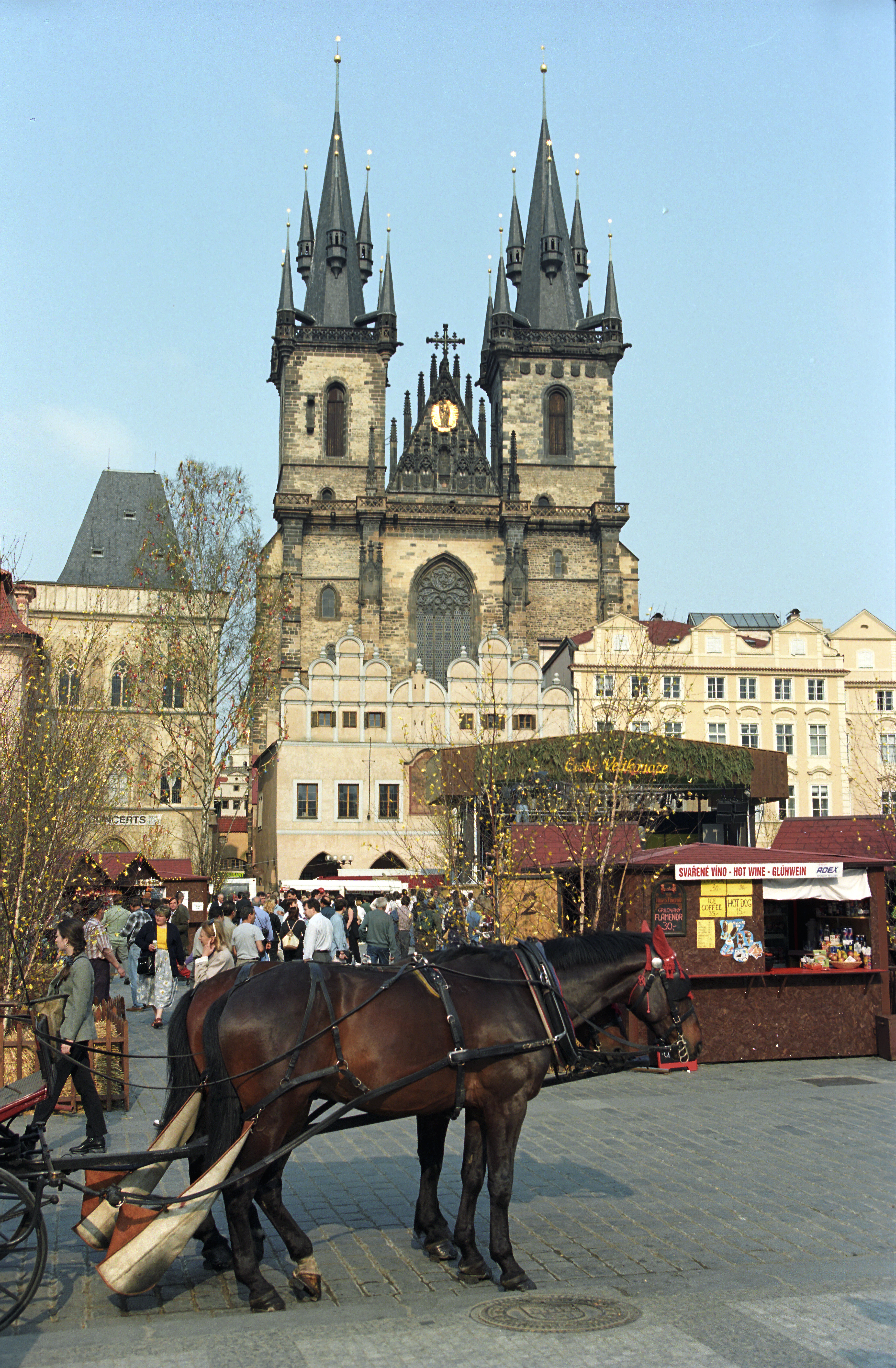 Prague, Church of Our Lady in front of Týn